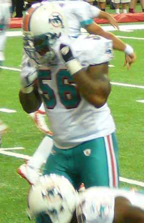 If used somewhere other than Wikipedia, Nelson, by name.